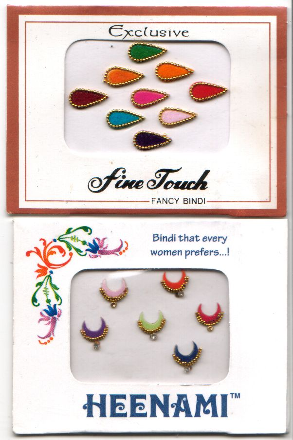 Indian bindis. Image created using a scanner by User:Neitram, October 1st, 2005.